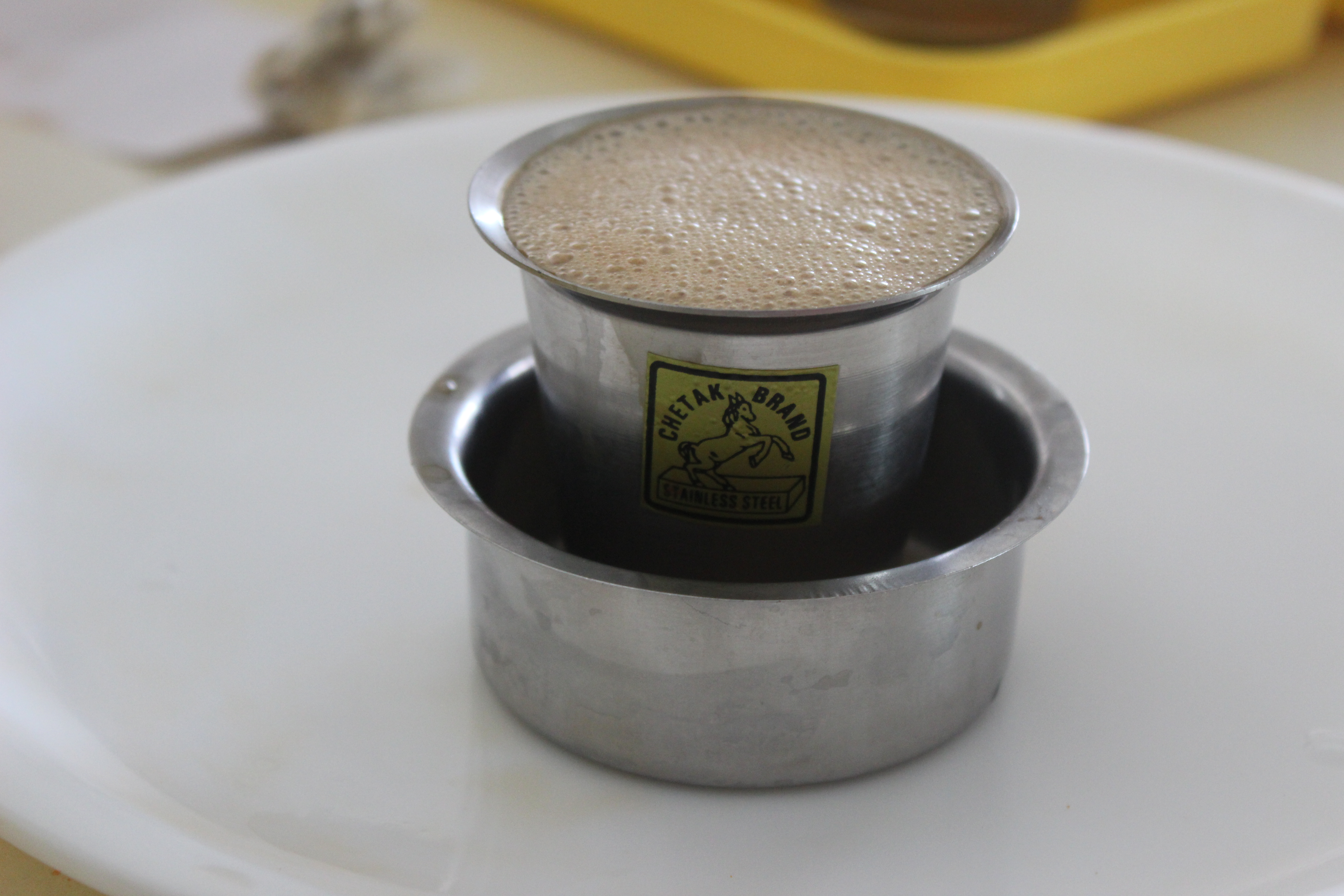 filter coffee is a culture in the south of india. It has a distinct flavour as chickory is added to it.